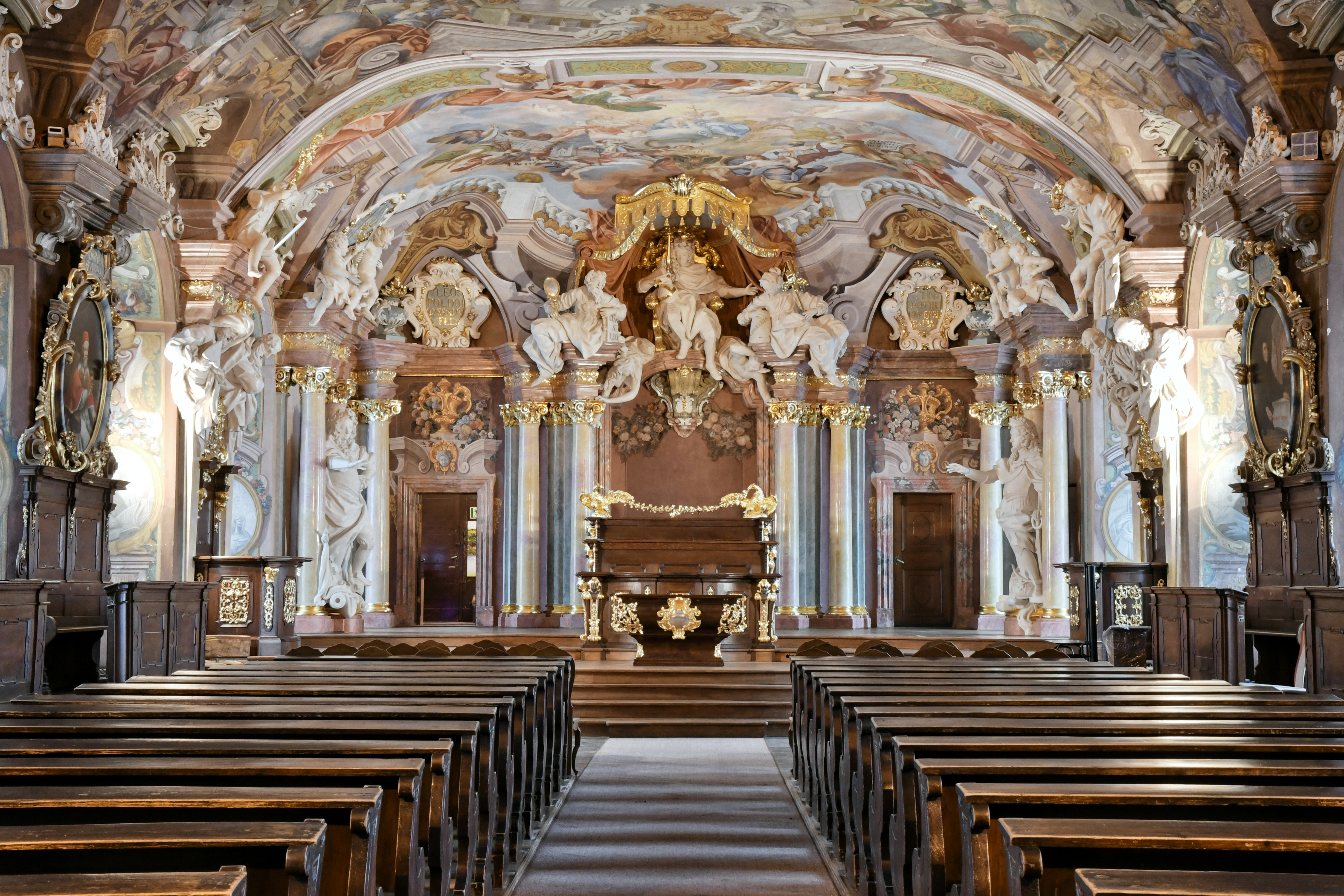 Uniwersytet Wrocławski – Aula Leopoldina / The University of Wroclaw – Aula Leopoldina